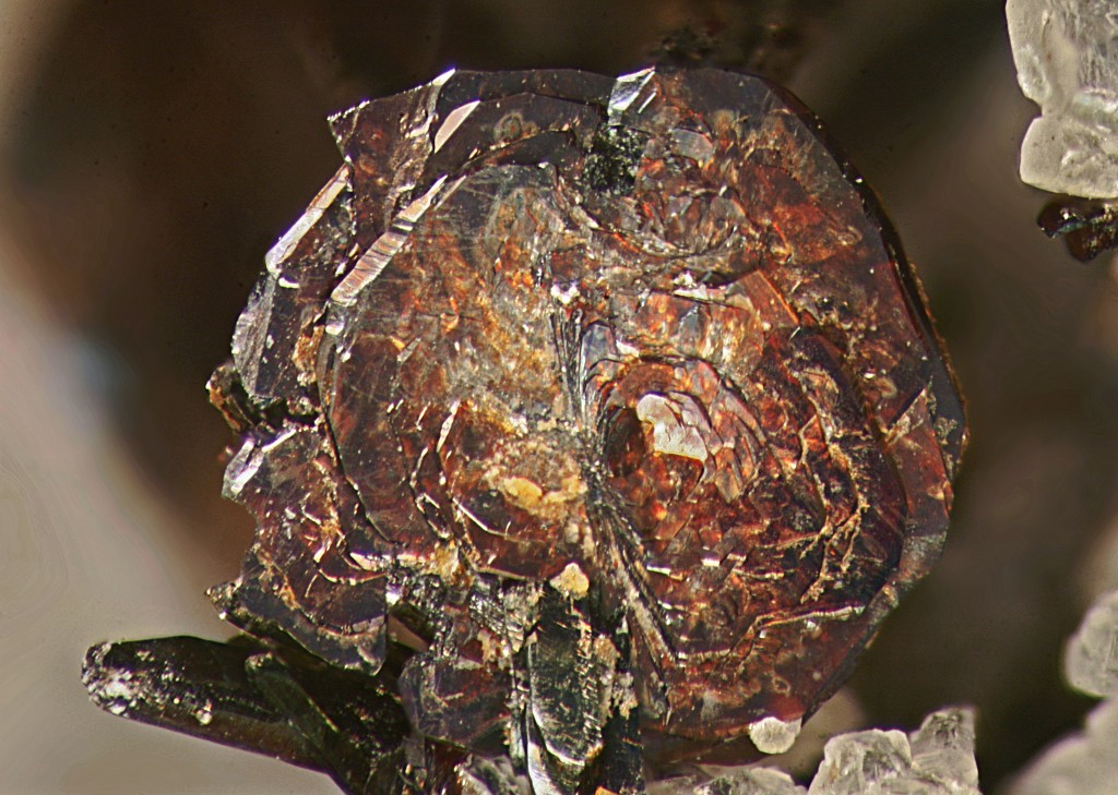 Pyrophanite (FOV 3.5 x 2.5 mm) Locality: Poudrette quarry (Demix quarry; Uni-Mix quarry; Desourdy quarry; Carrière Mont Saint-Hilaire), Mont Saint-Hilaire, Rouville RCM, Montérégie, Québec, Canada Via Jean-Pierre Beckerich. MOB coll. See File:Pyrophanite-183961.jpg for an attempt to show how spectacular the color of pyrophanite can be when brightly lit.